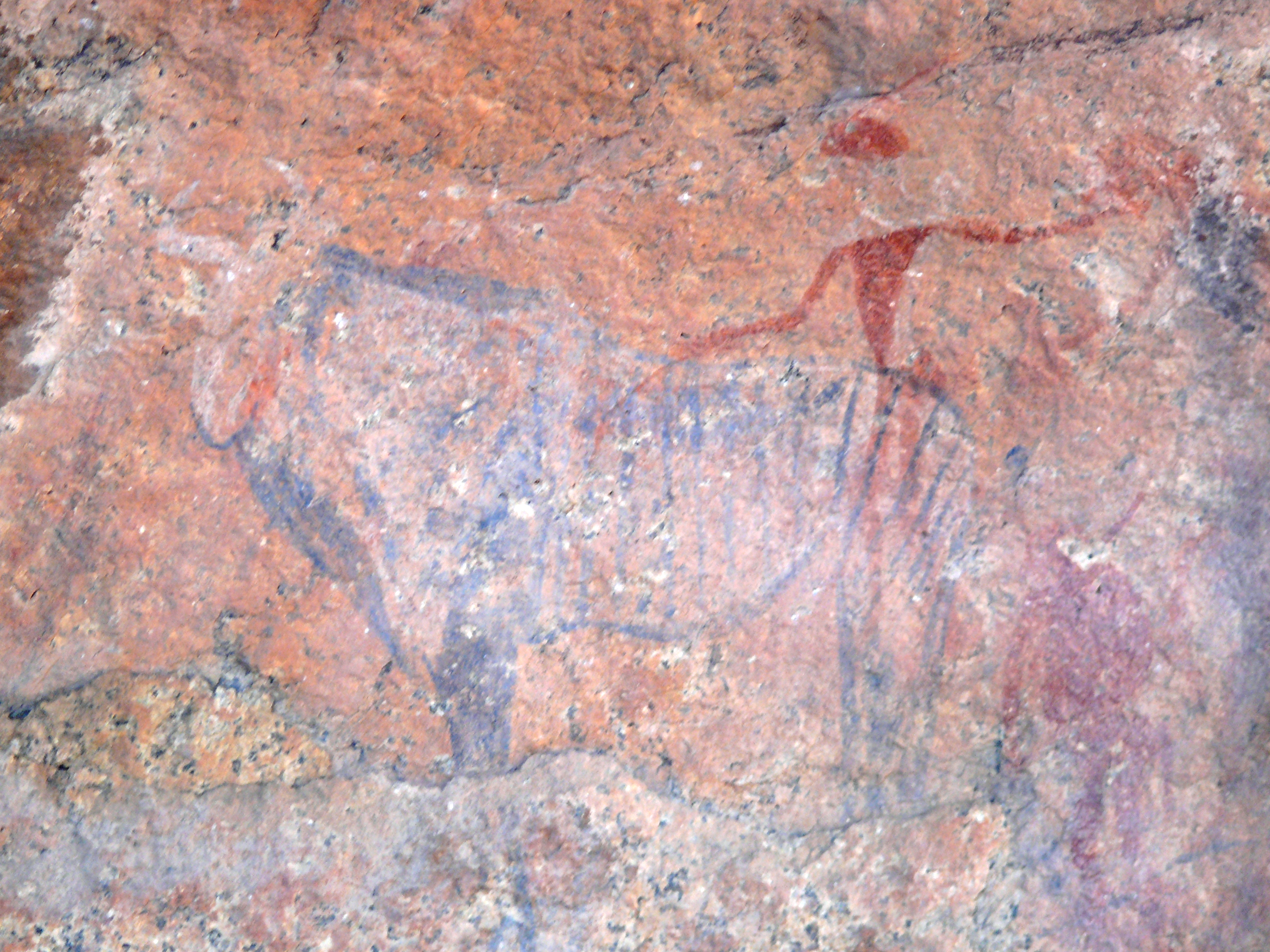 Hartebeest, White Lady, Brandberg